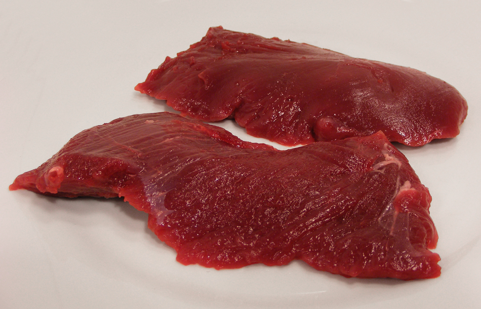 Lidl was selling reindeer steaks and I don't remember I ever ate reindeer so I decided to buy it. (even though it costed a ridiculous 39.50 euro the kilo) I was quite appalled when I opened the vacuum package, my god, what horribly cut piece of meat. But I have to say, once grilled they weren't that bad looking anymore and tasted great. Ingredients on the label (in dutch): rendiervlees (91%), water, zout, aroma, gedroogde glucosestroop, voedingszuur: natriumlactaat, antioxidanten: natriumcitraat, natriumerythorbaat.